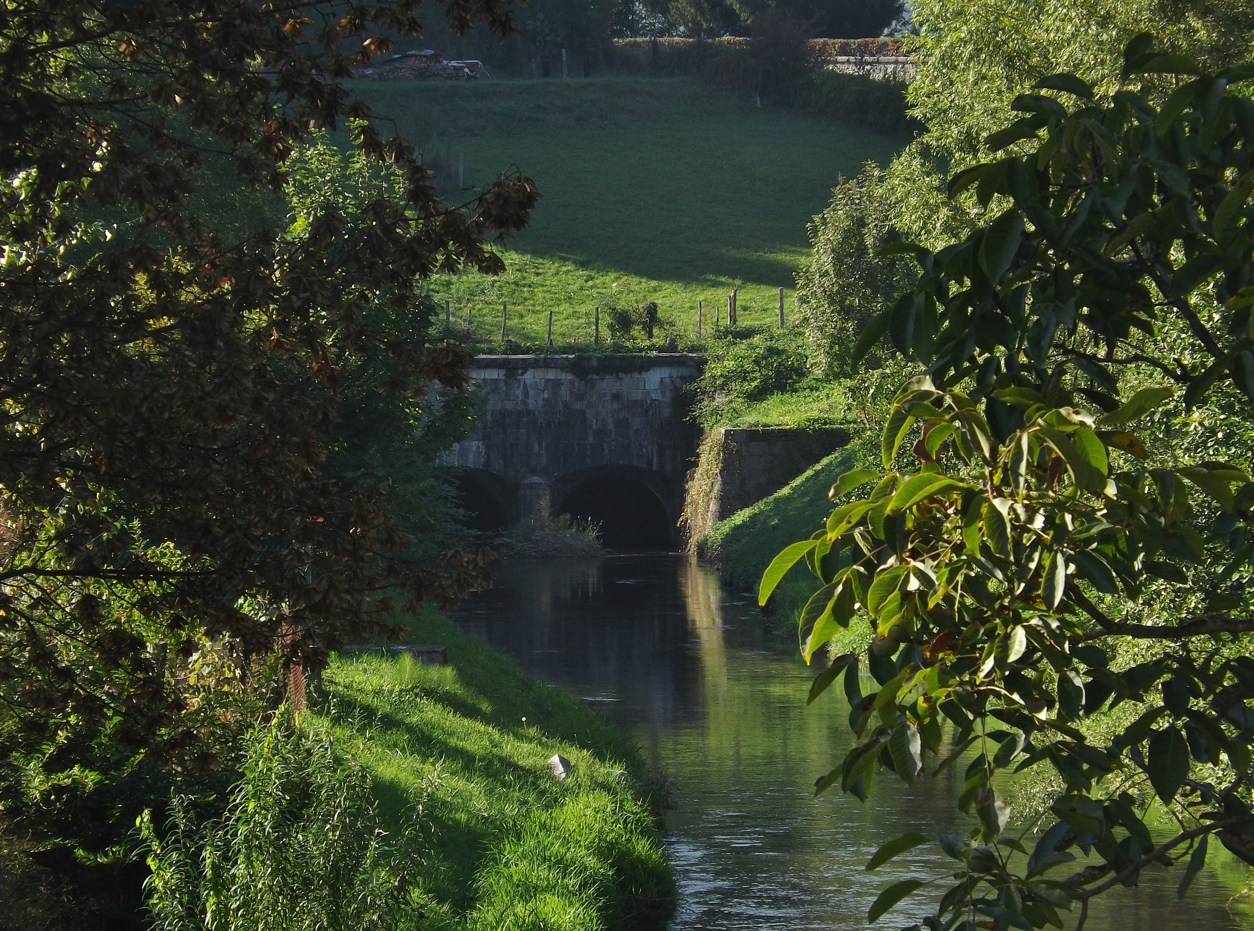 Sight of the Gelon river and the hydraulic tunnel in which it goes on the French commune of Chamousset in Savoie.